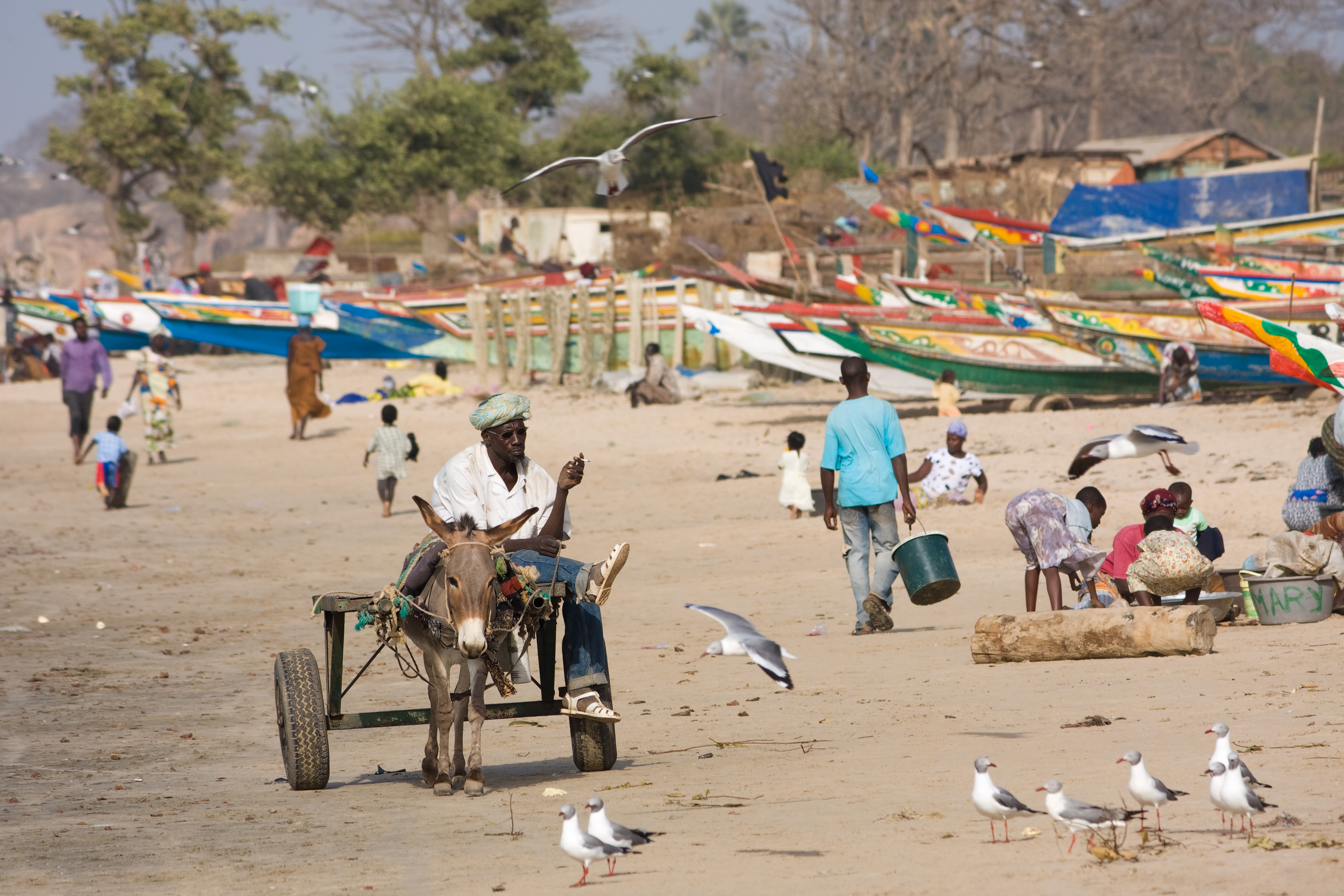 Beachside with a donkey cart in Gambia.